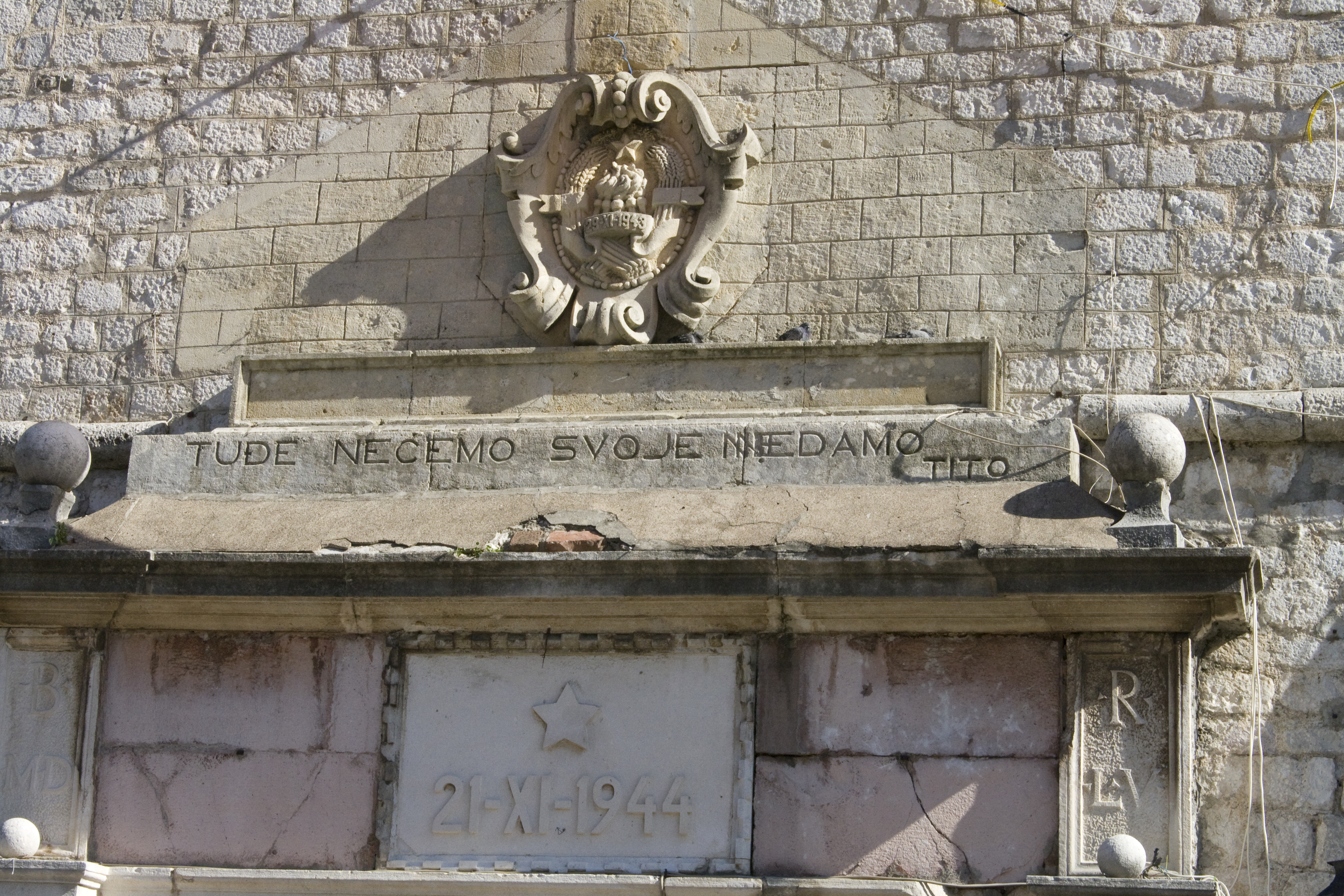 Picture of the inscription above the entrance to the old town in Kotor, Montenegro.